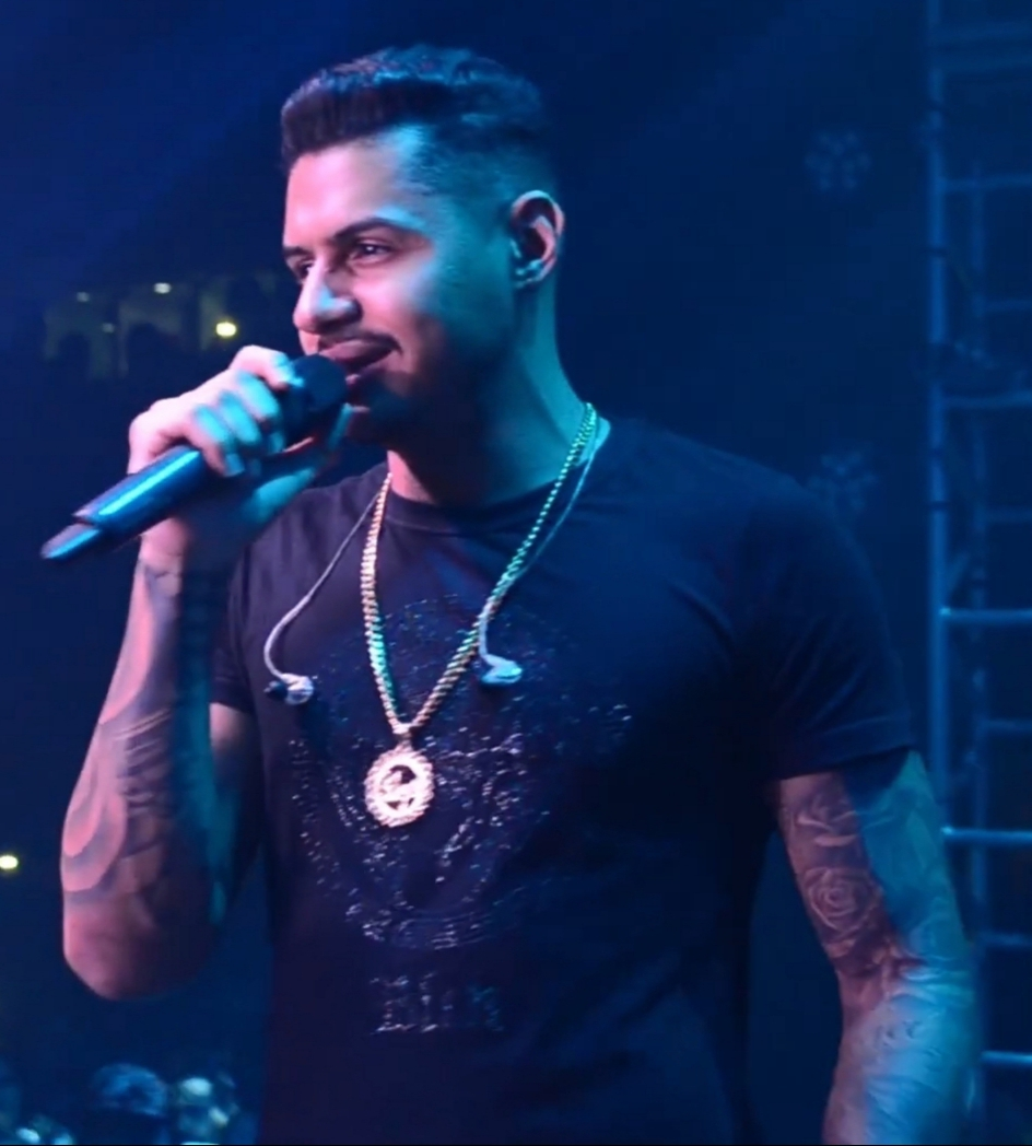 Hungria em 2019